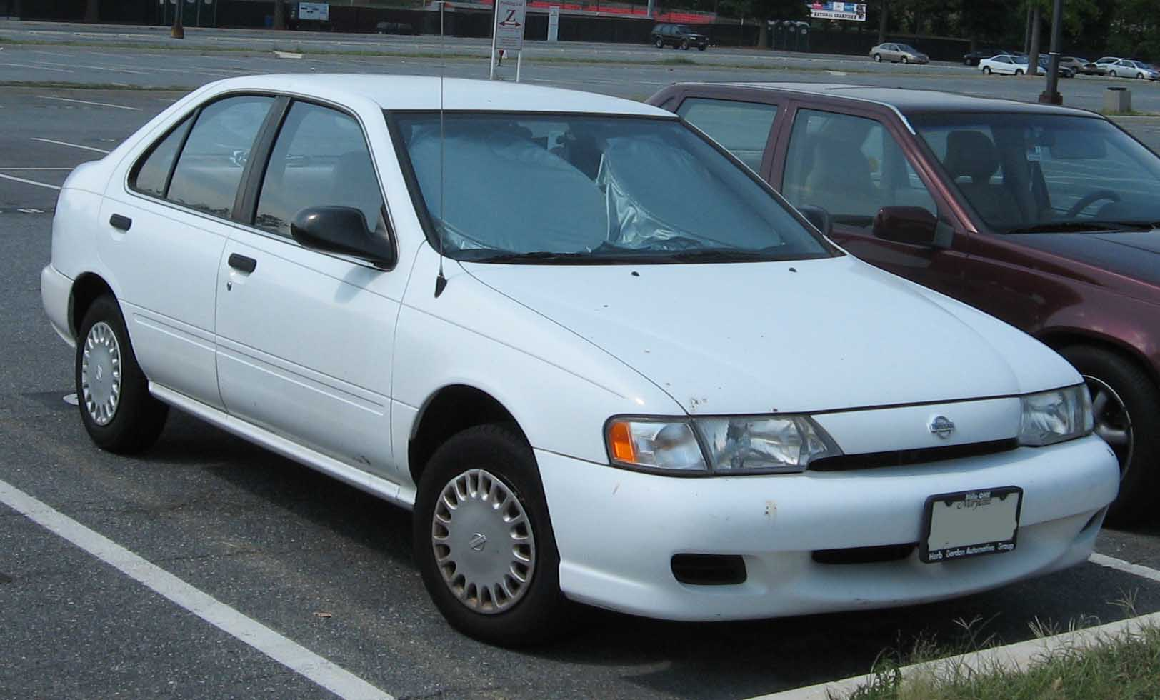 1999 Nissan Sentra photographed in College Park, Maryland, USA.